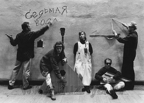 Sedmaya Voda (Seventh Water) - Russian folk group